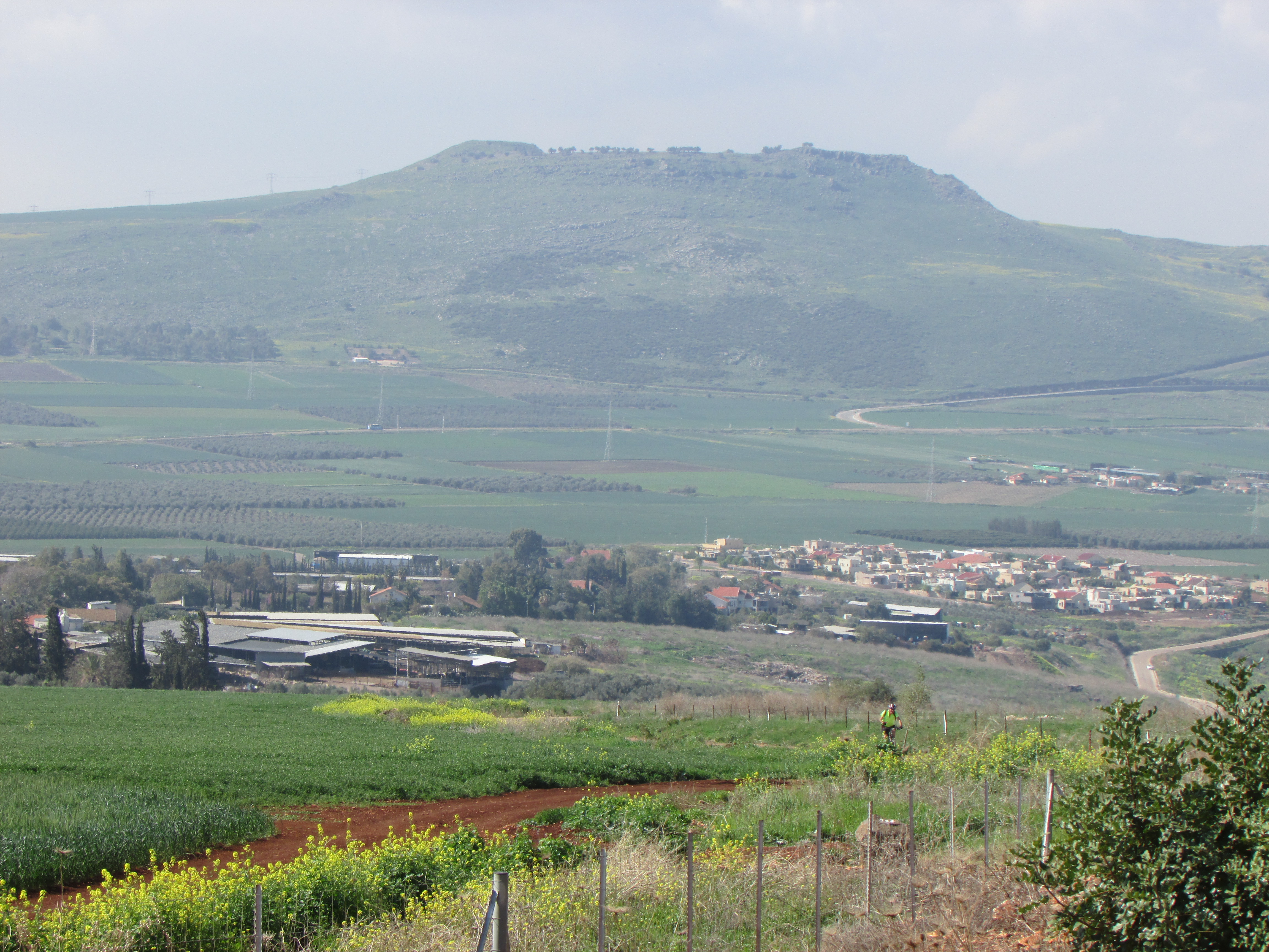 Moshav Arbel taken from mount Arbel. Behind is Karnei Hittin